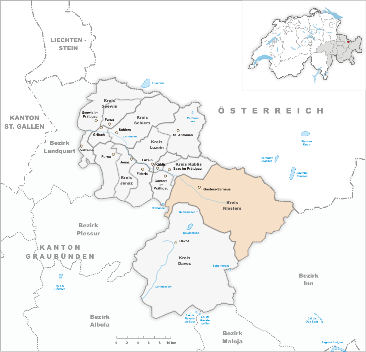 Municipality Klosters-Serneus